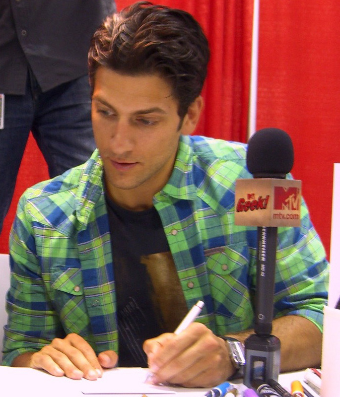 Comics creator Amanda Conner and MTV personality Kenny Santucci being filmed for an MTV segment in Artists Alley on Day 3 of the 2012 New York Comic Con, Saturday October 13, 2012 at the Jacob K. Javits Convention Center in Manhattan. This photo was created by Luigi Novi. It is not in the public domain, and use of this file outside of the licensing terms is a copyright violation.